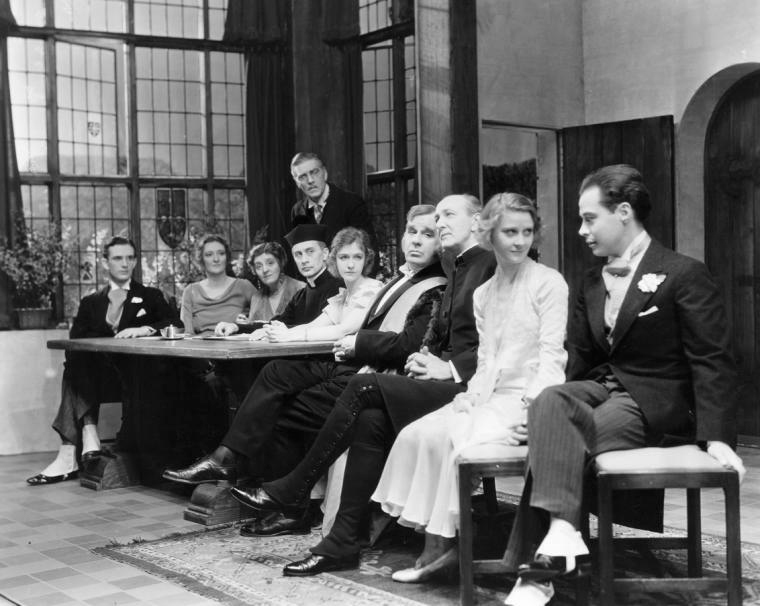 Photograph of the cast of George Bernard Shaw's Getting Married, produced by the Theatre Guild